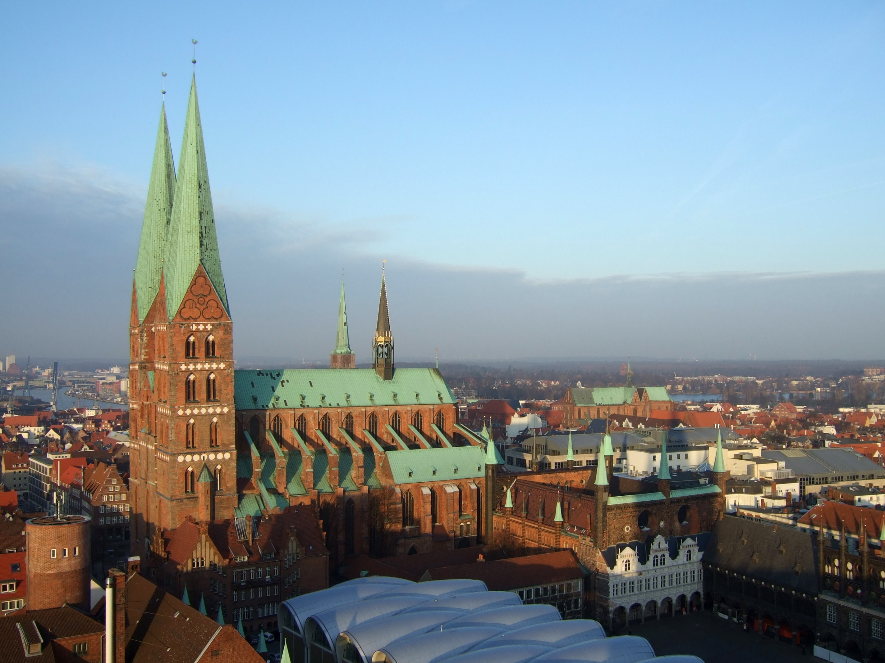 St Mary's Church Lübeck with Town Hall on the right.